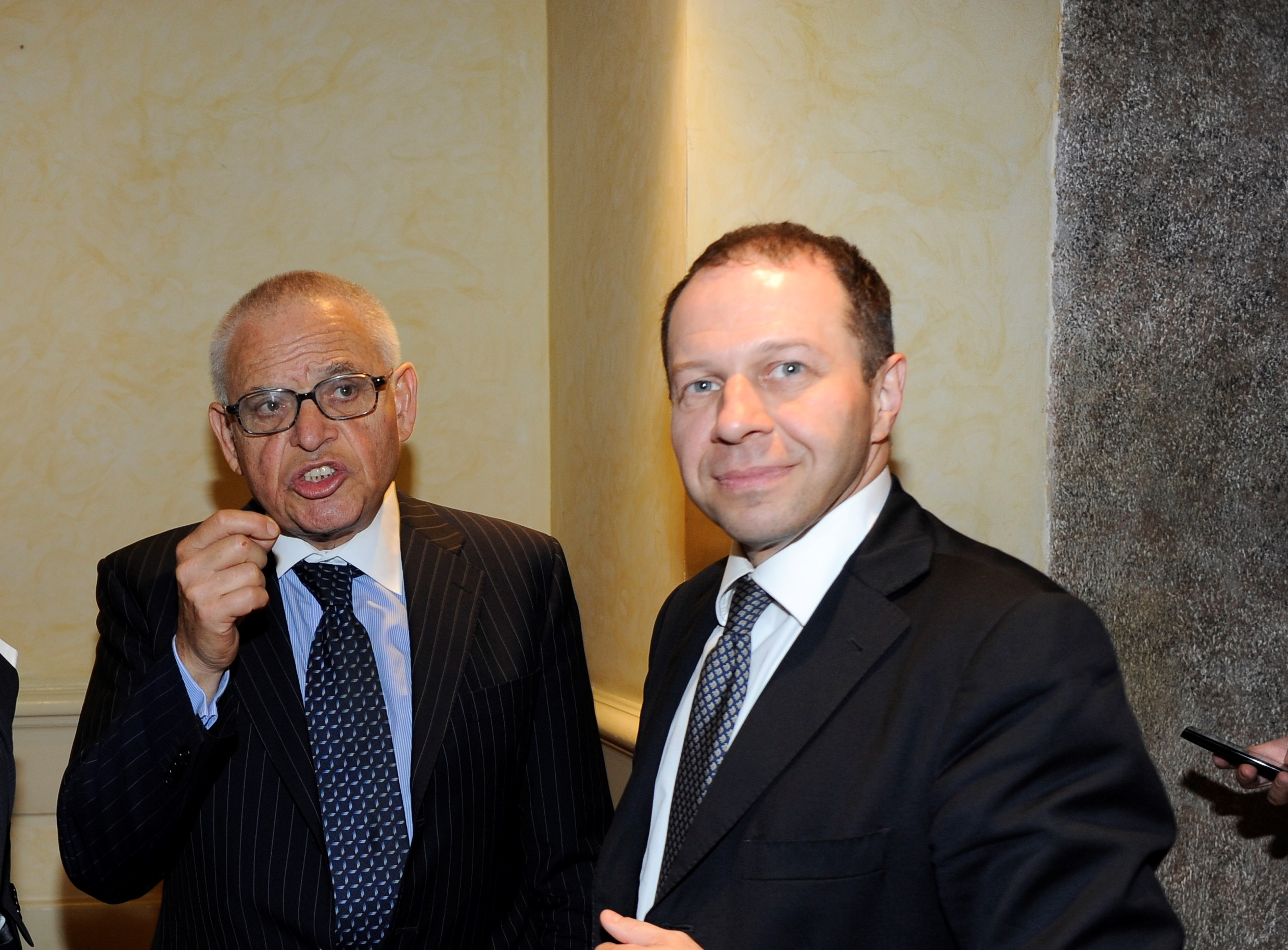 Edward Luttwak, Corrado Maria Daclon at Italian Parliament, 2011